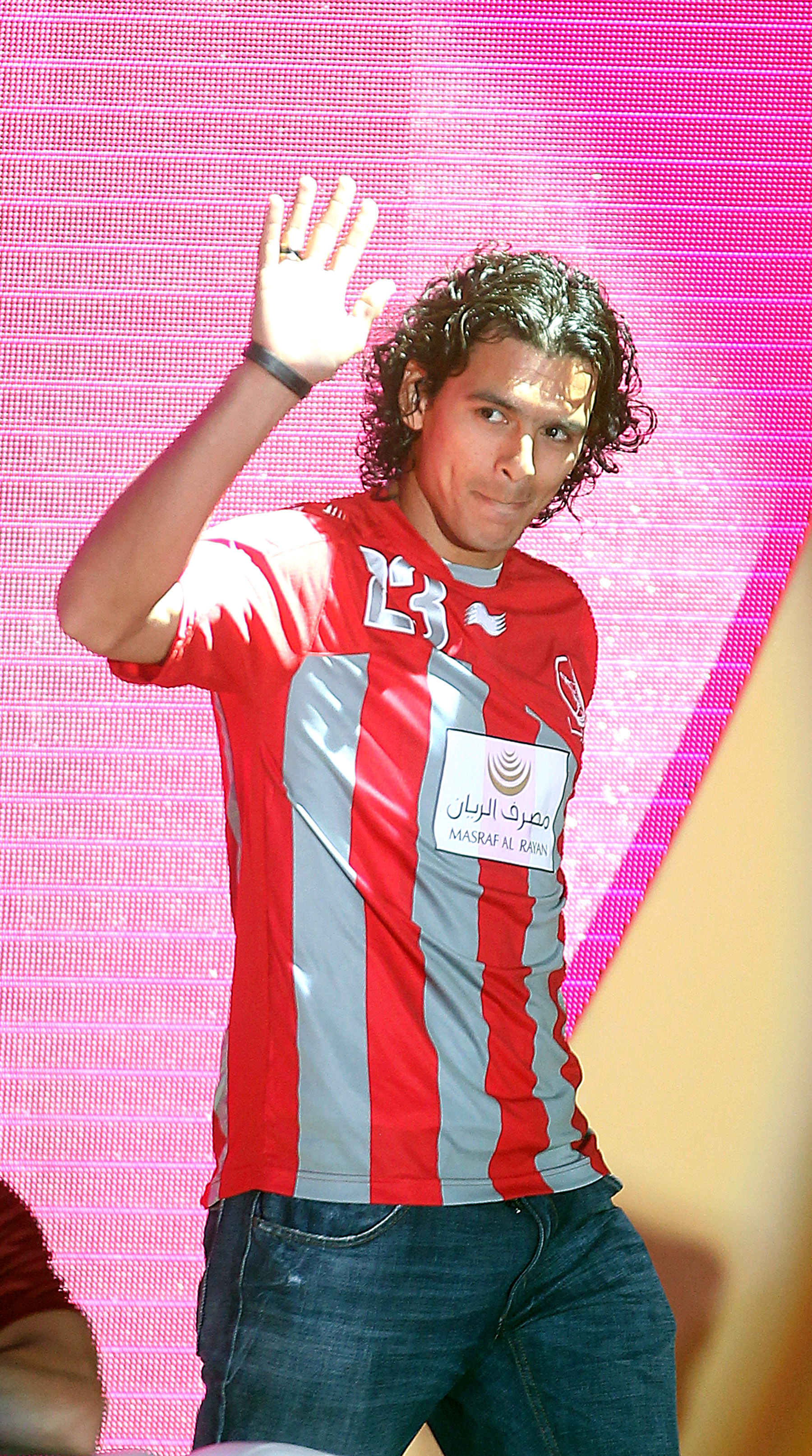 Lekhwiya's Sebastian Soria during the Qatar Stars League launch ceremony. Picture by Mohan